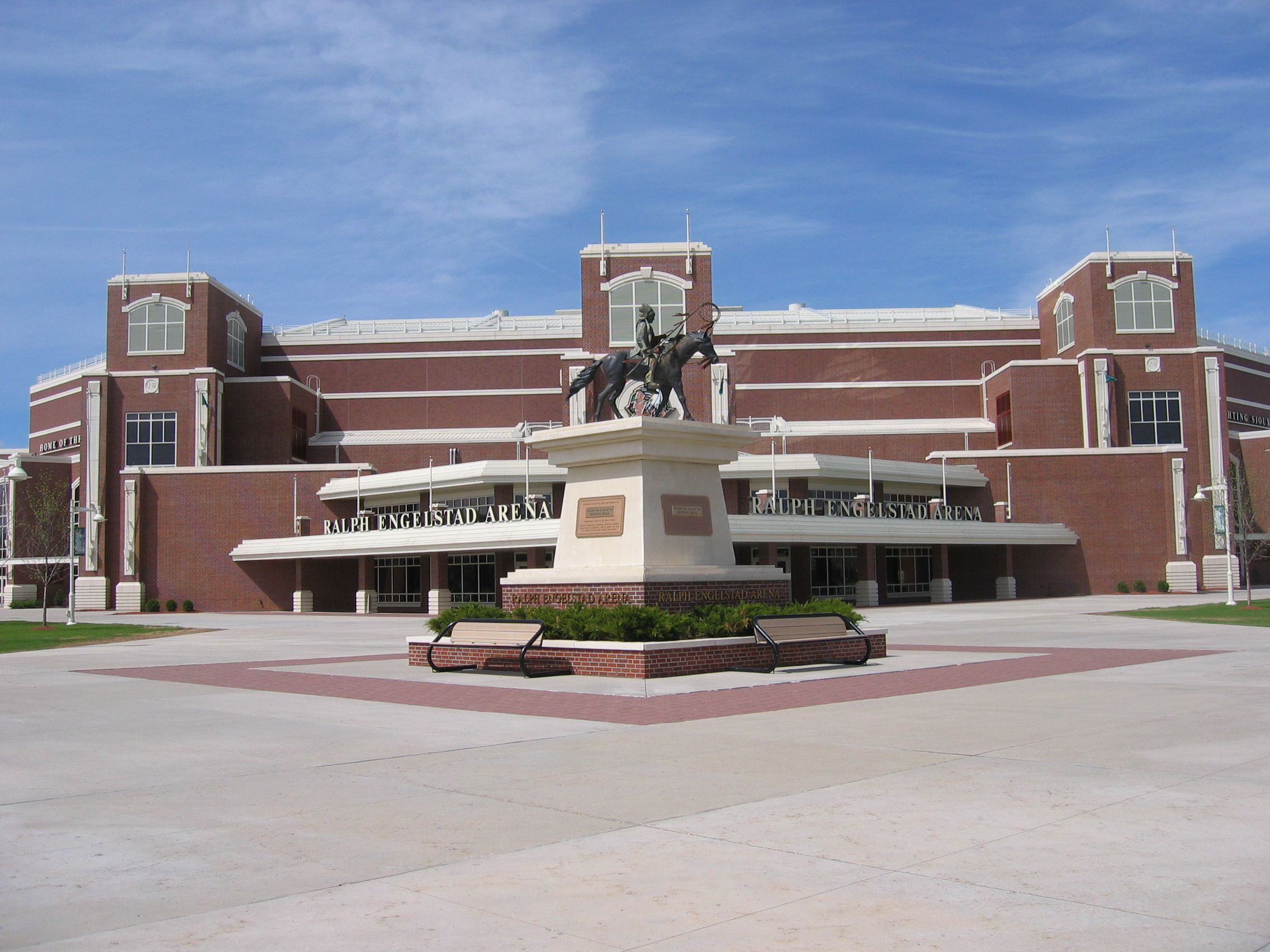 Ralph Engelstadt Arena at the University of North Dakota in Grand Forks, North Dakota. *Personally photographed by the undersigned May 8, 2007. Elcajonfarms 03:46, 3 July 2007 (UTC)